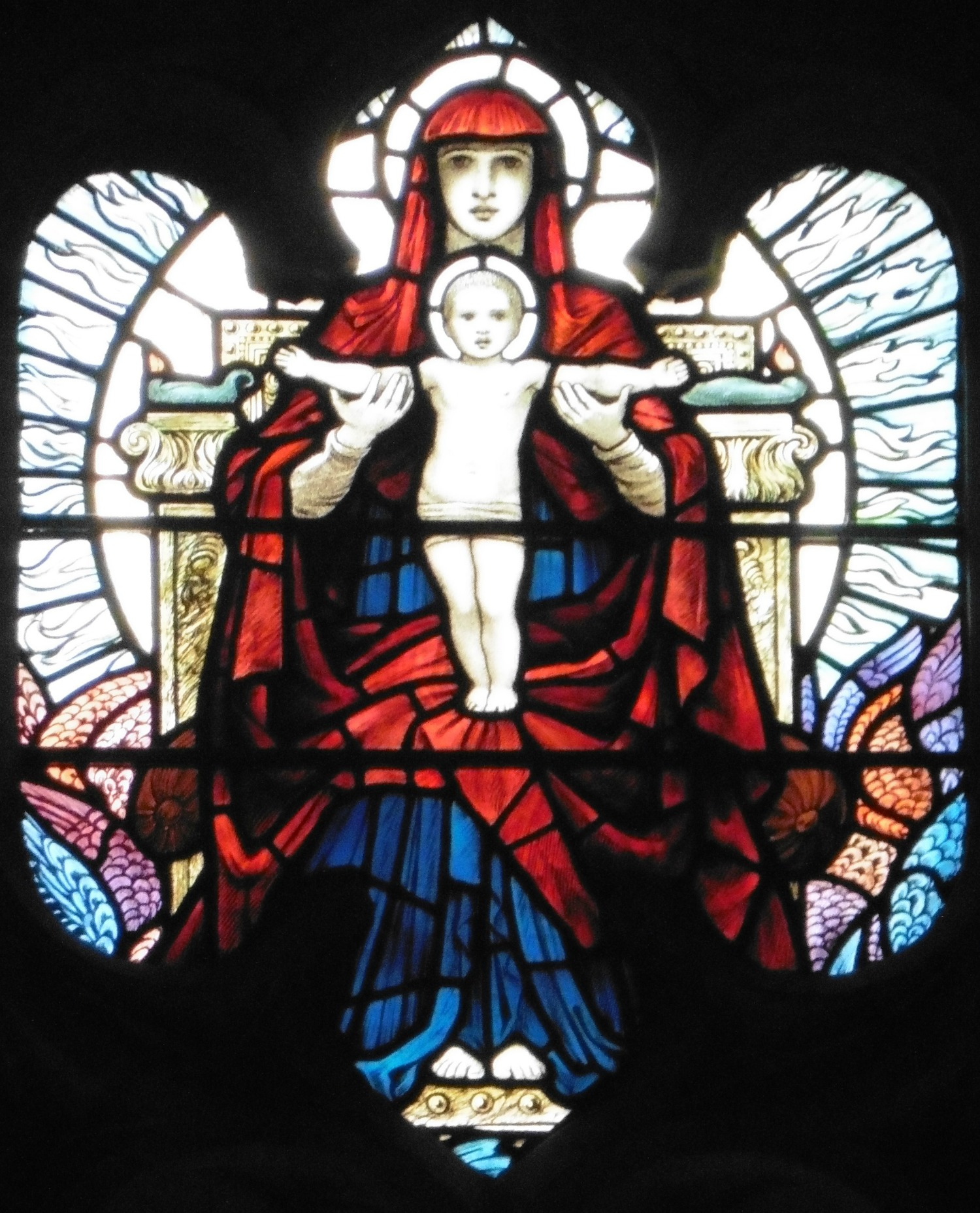 Detail of stained glass window, titled Charity, 1905-1910 by Sir William Blake RIchmond. At Holy Trinity Church, Sloane Square, London